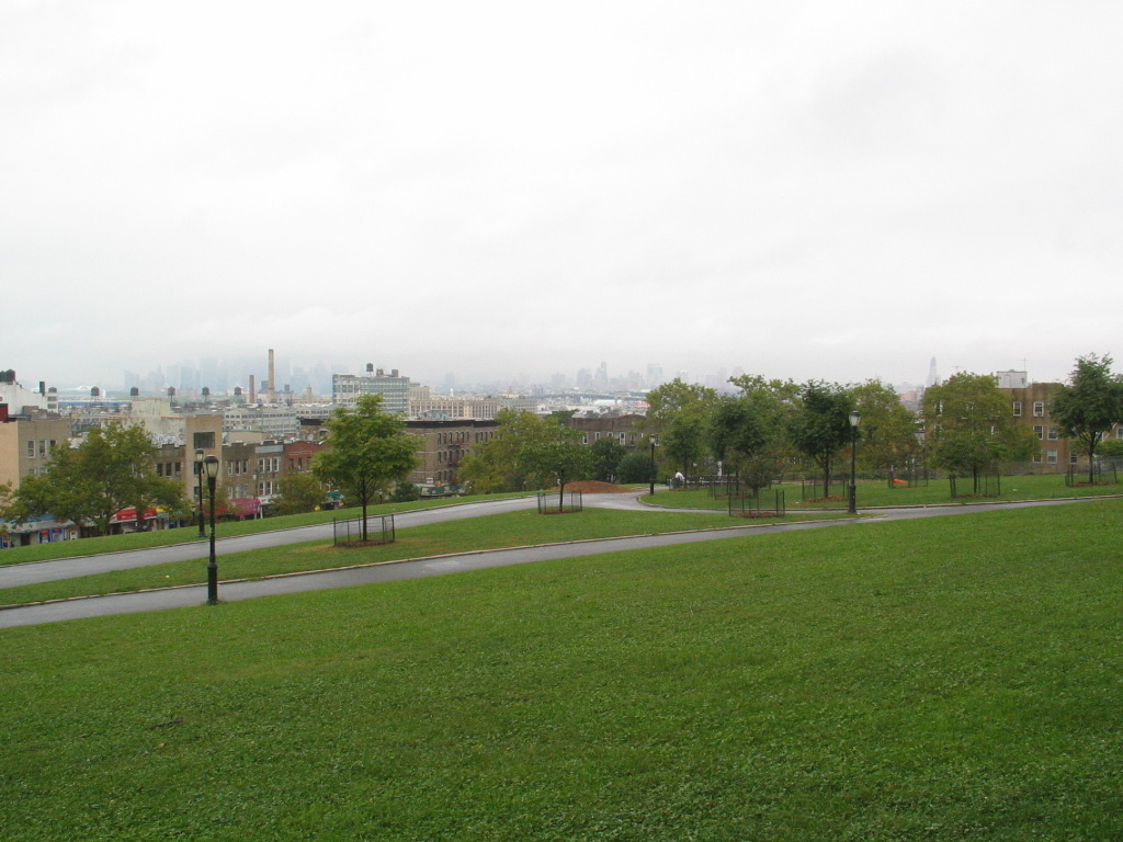 Looking westward from the Sunset Park in Brooklyn